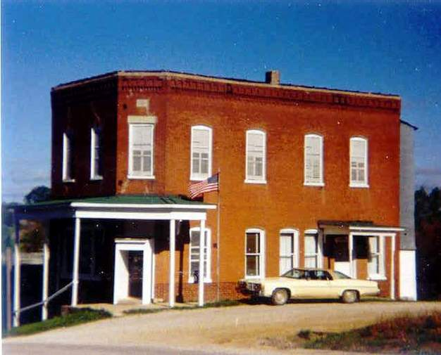 Former U.S. Post Office in Pollock, Missouri as it appeared circa 1994.